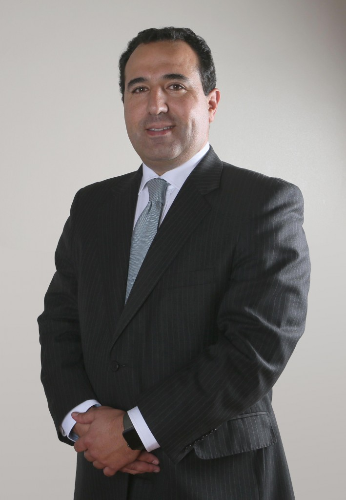 Official photo of Juan Francisco Galli as Undersecretary for the Chilean Armed Forces